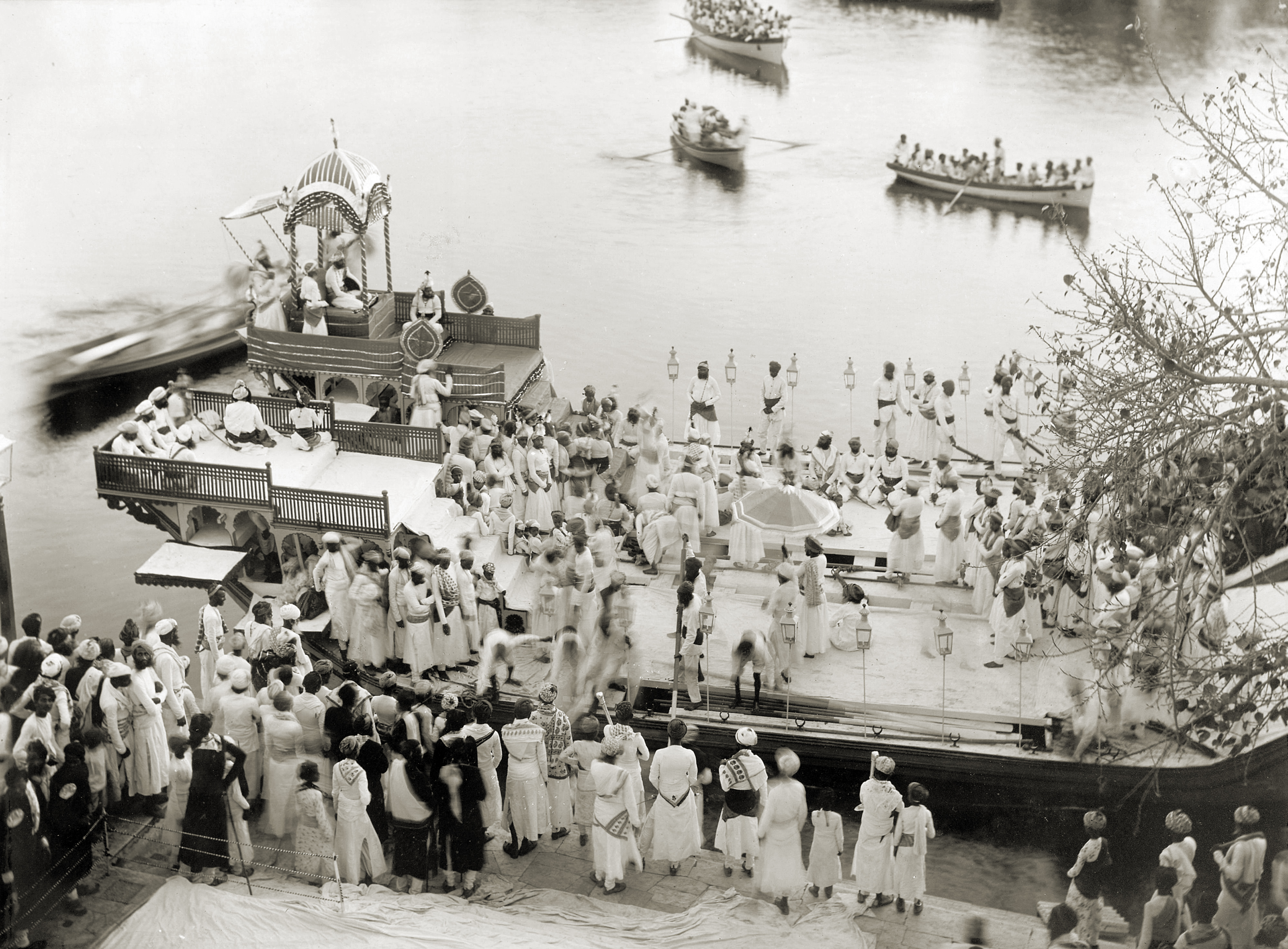 Photograph from the 'Curzon Collection: Album of views of Udaipur and Chittaurgarh', of Maharana Fateh Singh on board the royal barge at Udaipur in Rajasthan, taken by an unknown photographer in the 1900s. Udaipur was founded by Udai Singh (ruled 1567-72) of the Sisodia Rajputs in the mid-16th century as the fourth and last capital of the Mewar state. It lies in a valley containing three lakes, the Pichola, the Fateh Sagar and the Umaid Sagar. The City Palace stands on the east bank of Lake Pichola. This view shows two barges moored together on the lakeside next to a ghat as part of a royal ceremony. The ghat and decks of the barges are crowded with state officials and court functionaries. He is shown sitting under a canopy on a raised platform on the barge furthest from the ghat. Another print of this image is described as the ‘Gangore Festival’; the Gangaur festival is an important Rajput festival held in honour of Shiva’s consort Parvati and celebrated in late spring.